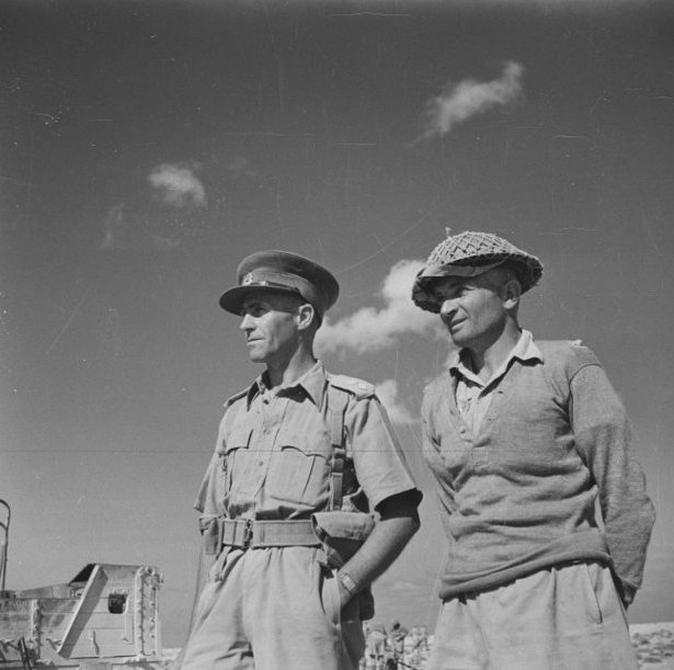 Lieutenant Colonel Howard Karl Kippenberger (later Sir), World War II Distinguished Service Order award winner, and Victoria Cross recipient Lieutenant Charles Hazlitt Upham (in covered helmet), taken circa October or November 1941 by an unidentified photographer. Lieutenant Colonel Howard Karl Kippenberger with Lieutenant Charles Hazlitt Upham, Egypt. New Zealand. Department of Internal Affairs. War History Branch :Photographs relating to World War 1914-1918, World War 1939-1945, occupation of Japan, Korean War, and Malayan Emergency. Ref: DA-02149-F. Alexander Turnbull Library, Wellington, New Zealand.